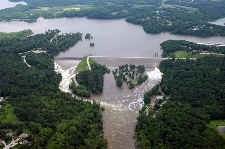 View of Coralville Dam at floodstage, Sunday June 15, 2008. The spillway fully open with water about 5 feet deep -- the record for the dam